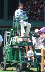 Chair umpire referee on the court 18 at Wimbledon 2006.